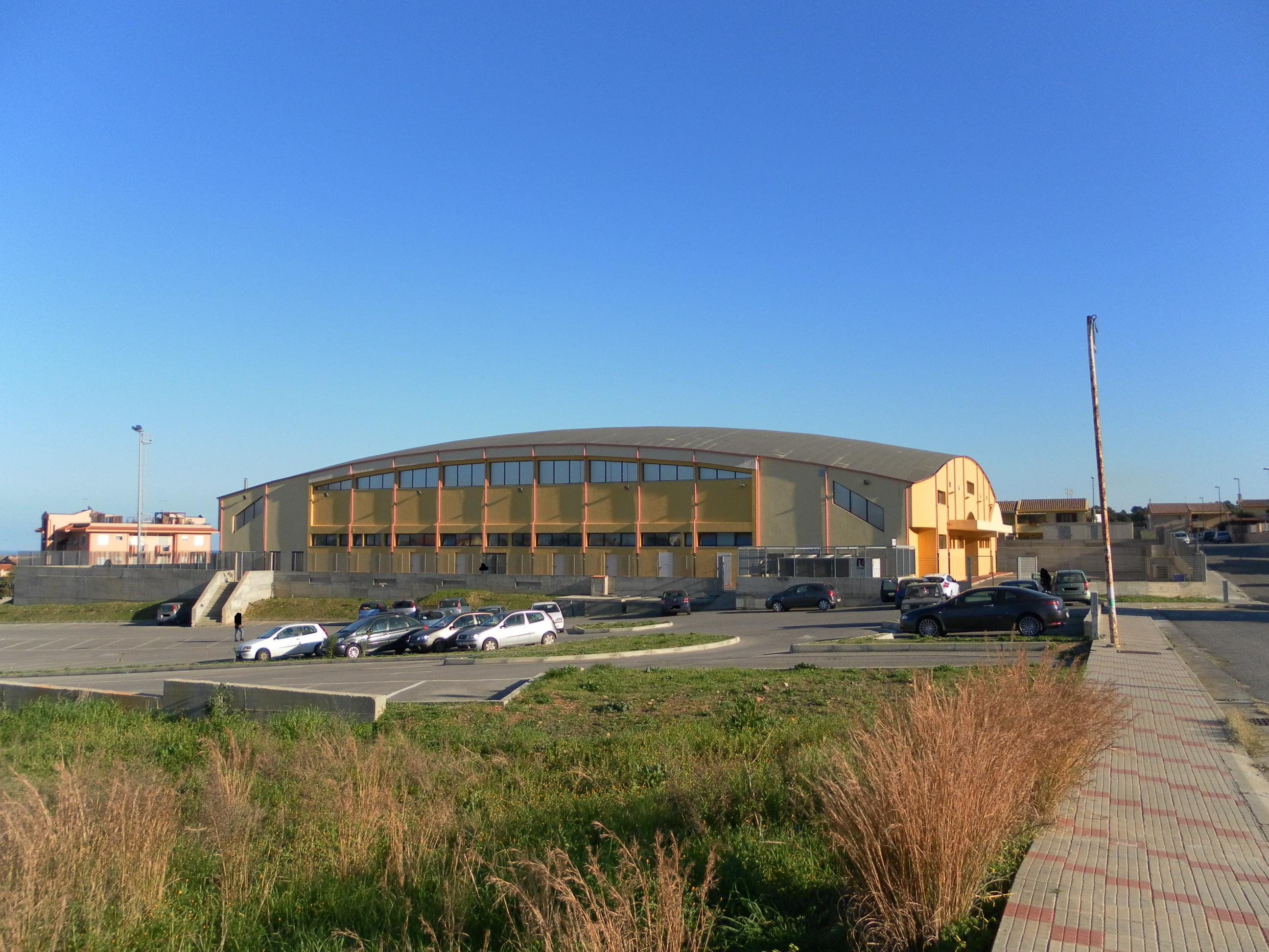 Capoterra palazzetto